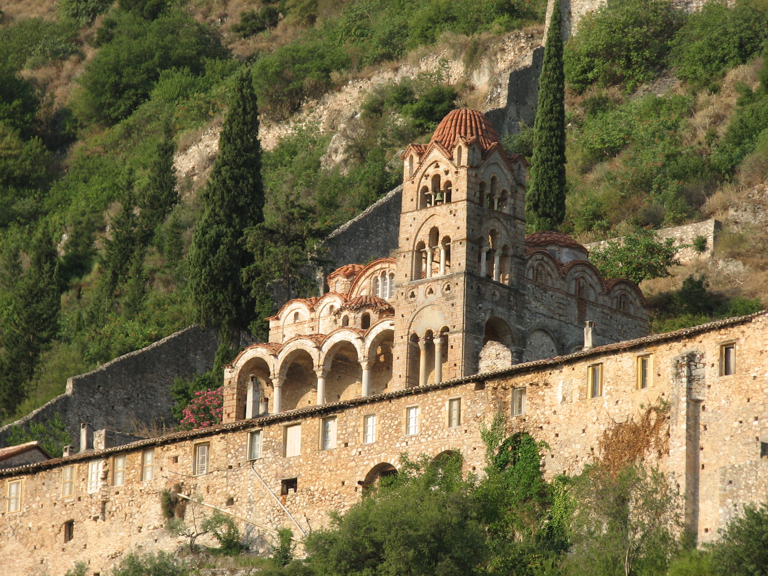 Byzantine city of Mystras.